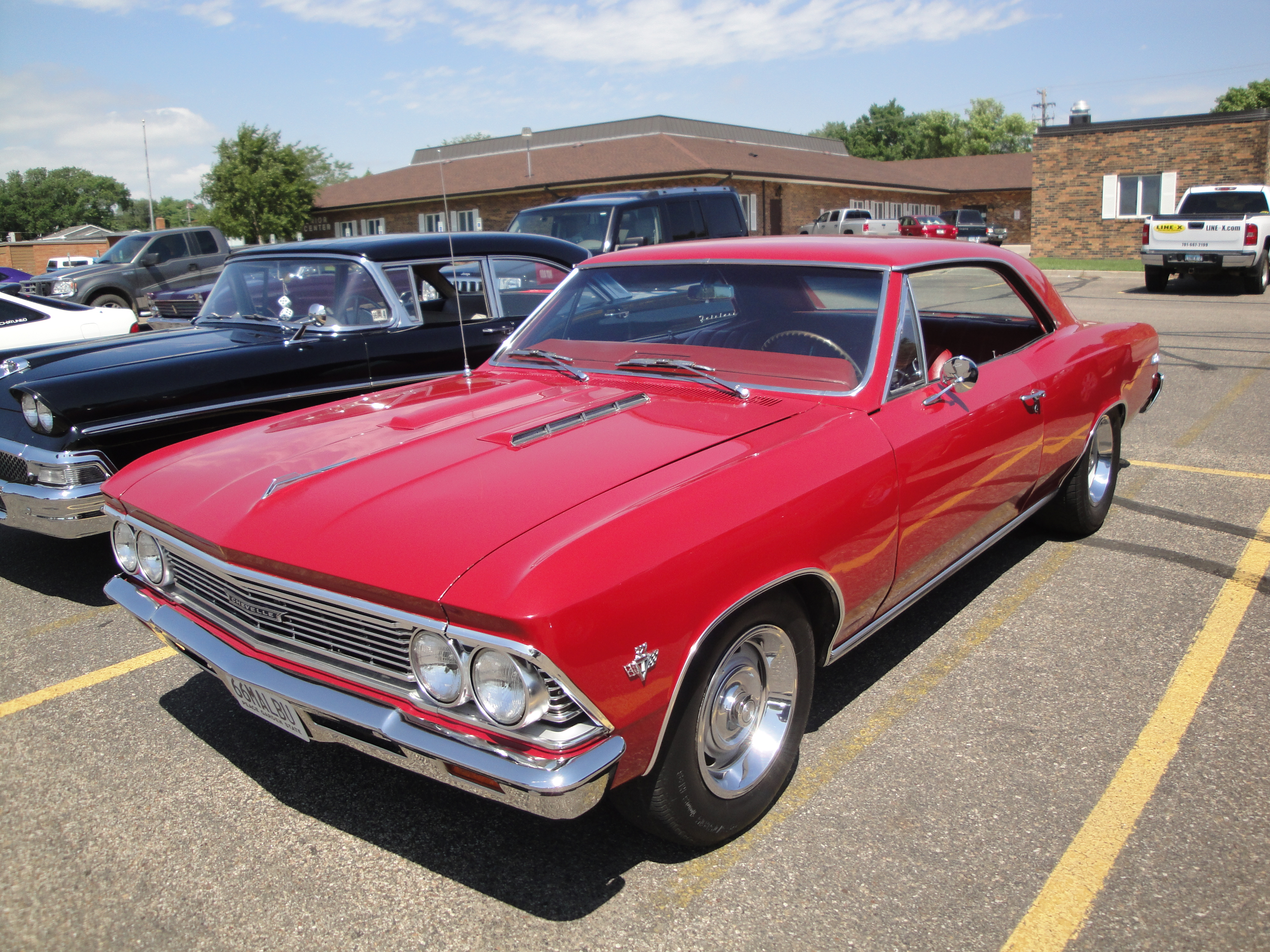 Chevrolet Chevelle Malibu @ Bismark, North Dakota June 2012